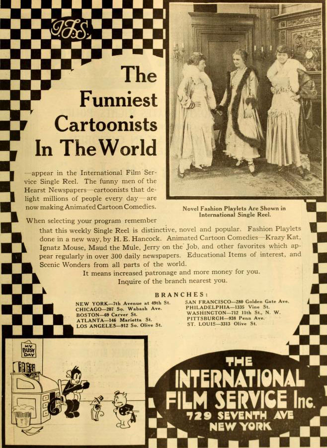 Advertisement in Moving Picture World